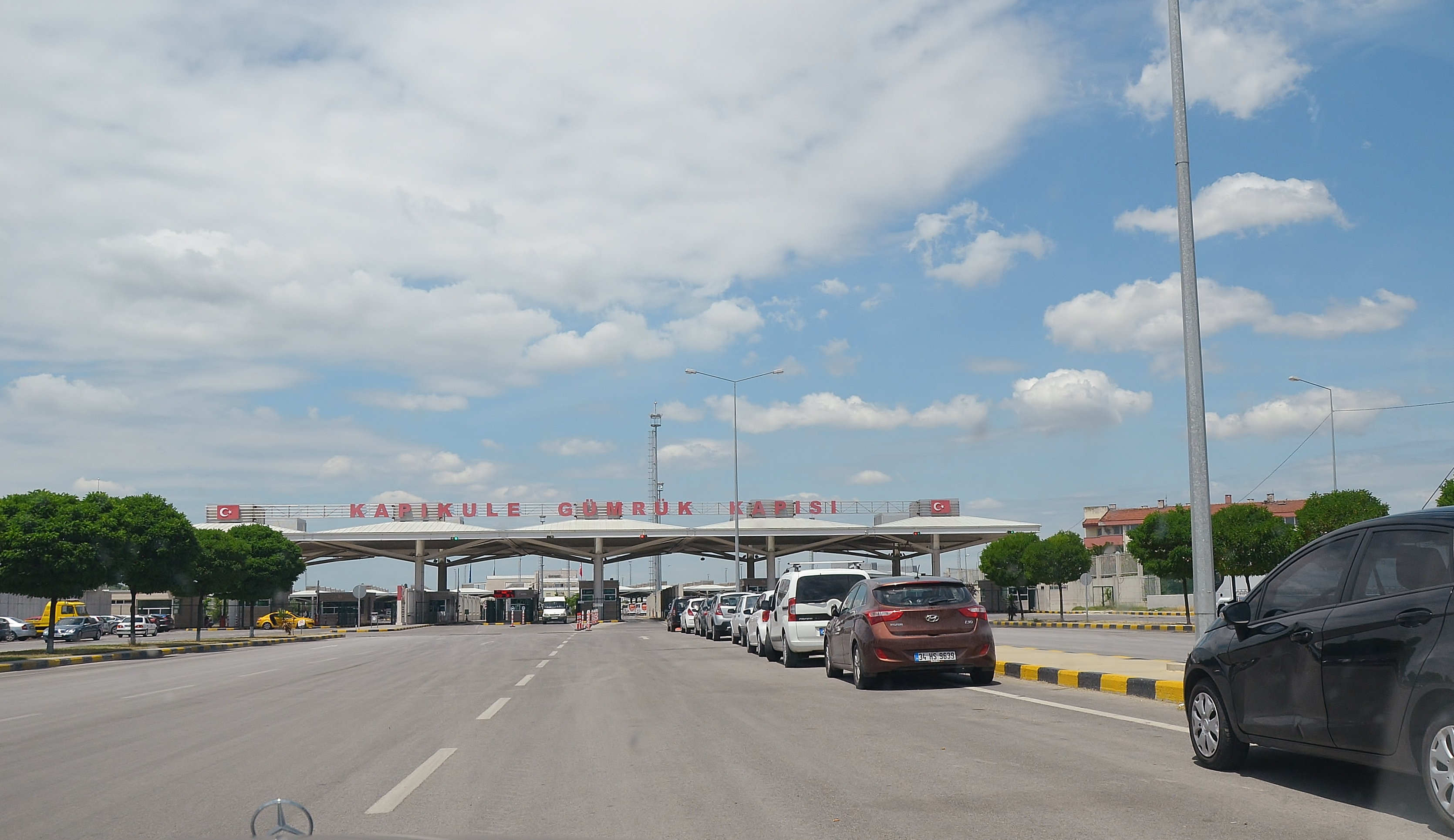 Kapıkule Border Crossing Turkey to Bulgaria on the state road D-100